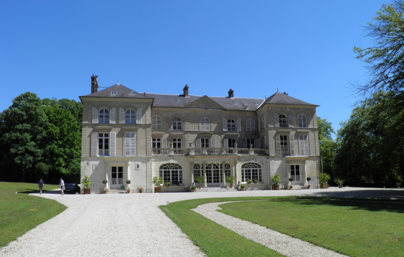 Château de Valgenceuse, Senlis, Oise, France.